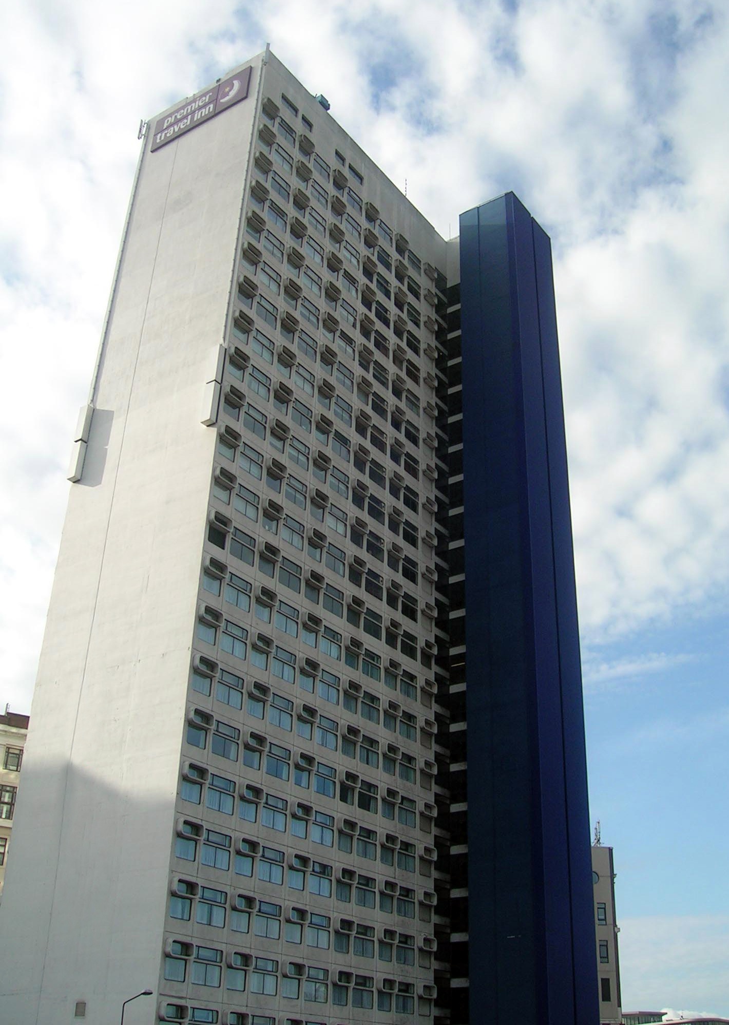 The North Tower, a Premier Inn hotel and (at the time this photograph was taken) the tallest building in the City of Salford, Greater Manchester, England.